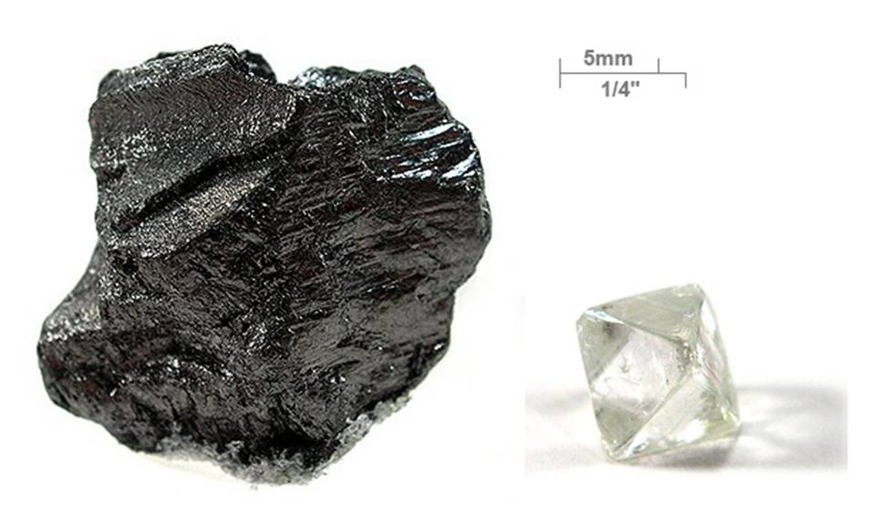 Diamond and graphite shown side by side, for illustrating carbon. Scale is based on a rough approximation. Diamond Locality: South Africa Size: 1.31 carats: 7 x 6 x 6 mm An octahedral facetable crystal. Graphite Locality: El Cochi, Sonora, Mexico Size: thumbnail, 2.5 x 2.4 x 1.2 cm Crudely crystallized graphite, with a resinous luster.